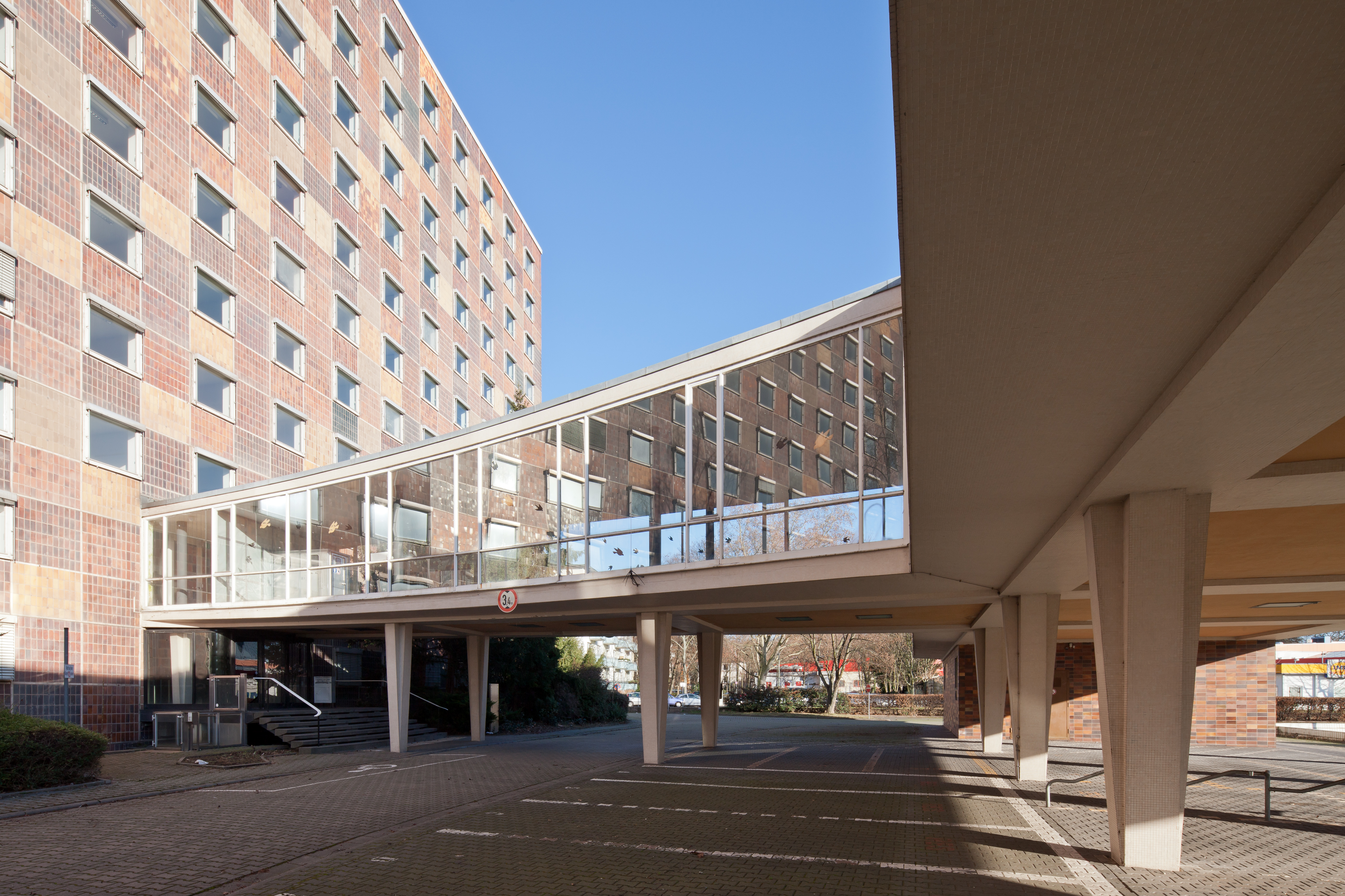 Frankfurt on the Main: Former Oberfinanzdirektion (Upper Finance Directorate), glass bridge between main building and pavilion as seen from the southwest